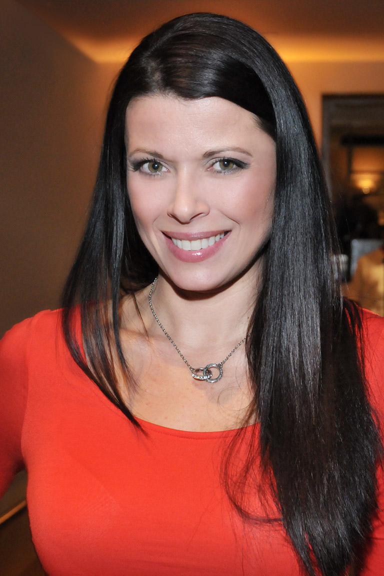 Angel Boris, Beverly Hills, California on November 12, 2014 - Photo by Glenn Francis of